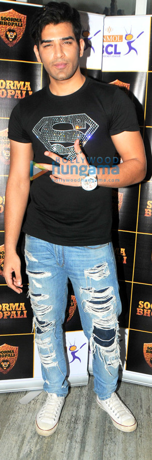 Paras Chhabra